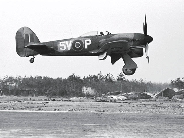 A Hawker Typhoon Mk IB (s/n RB402, "5V-P") of No. 439 Squadron RCAF, landing at B100/Goch, Germany.